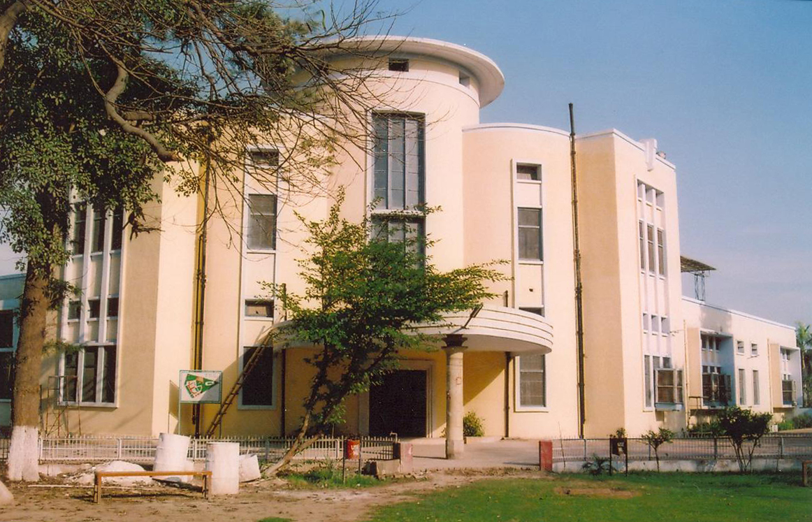 Rajpal. Singh, Kang